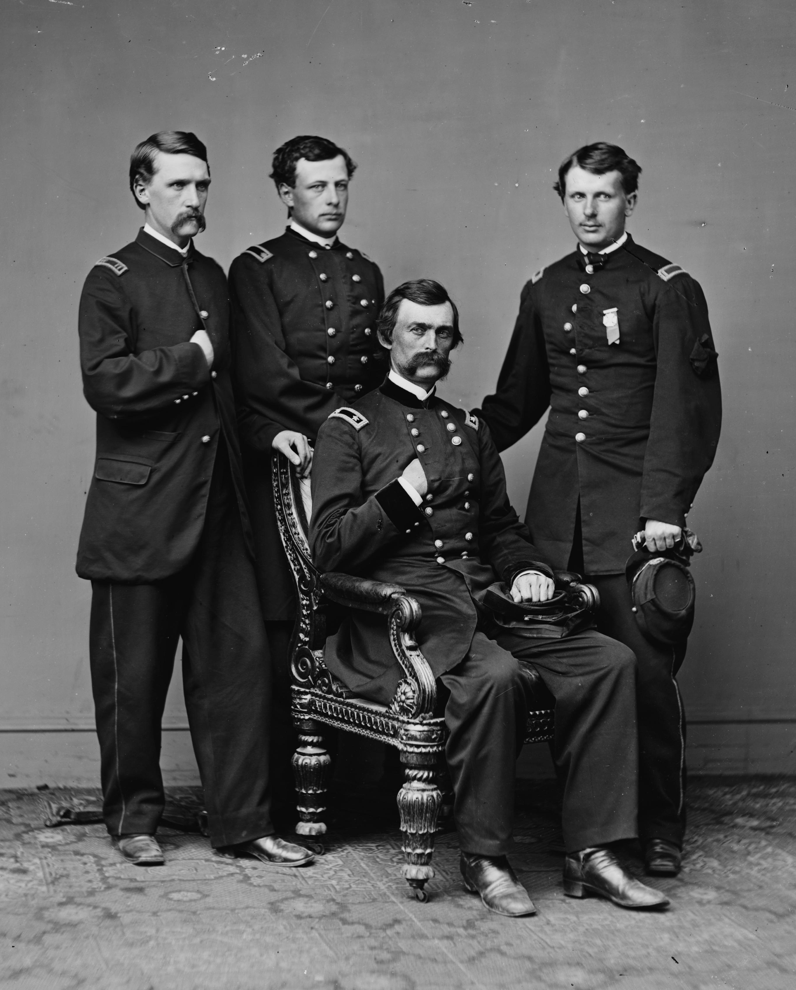 Charles Griffin. Library of Congress description: "Gen. Charles Griffin and staff"